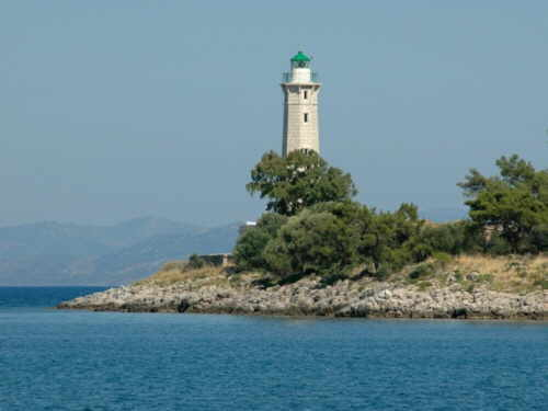 The light house of Gythion, Greece